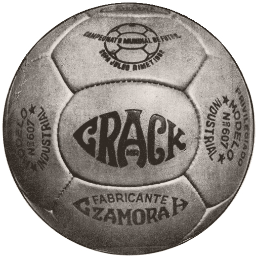 CRACK . FIFA World Cup ball 1962